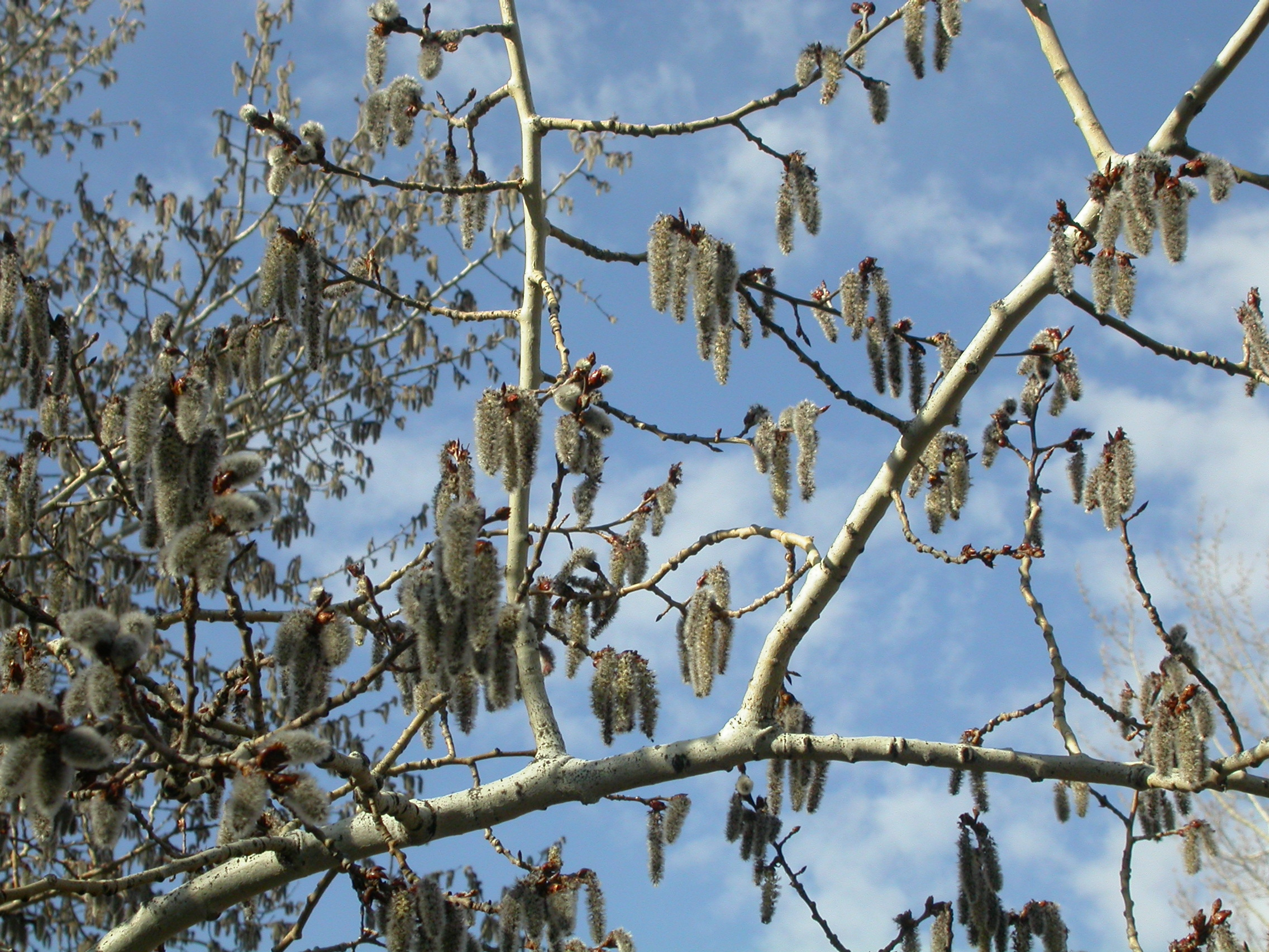 The catkins (staminate in this photo) are produced early in the spring, late April to sometimes as late as early May.